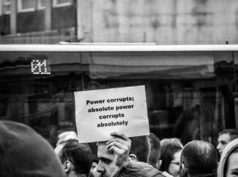 lordacton